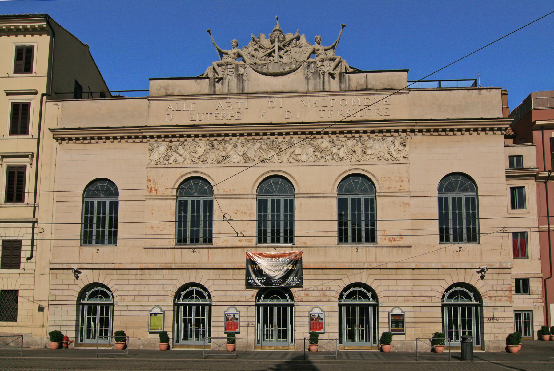 Teatro di Argentina, Rome.